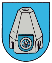 Coat of arms of Kalkofen (Pfalz)